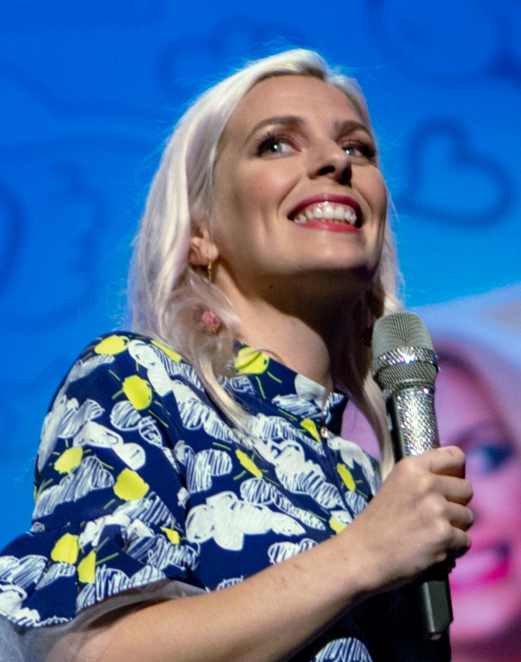 Sara Pascoe - London Palladium EARLY SHOW - Sunday 10th March 2019